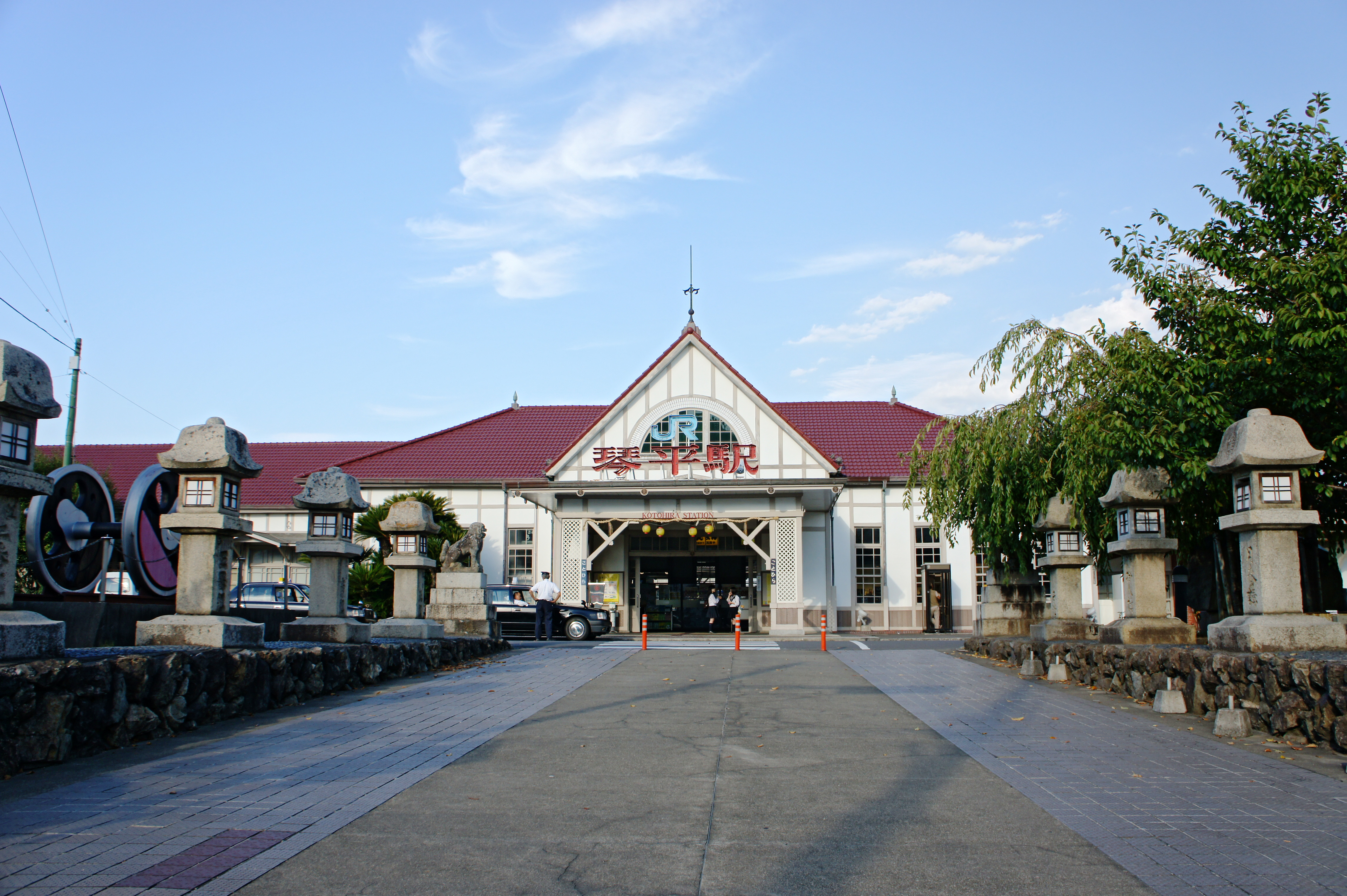 Kotohira Station in Kotohira, Kagawa prefecture, Japan.